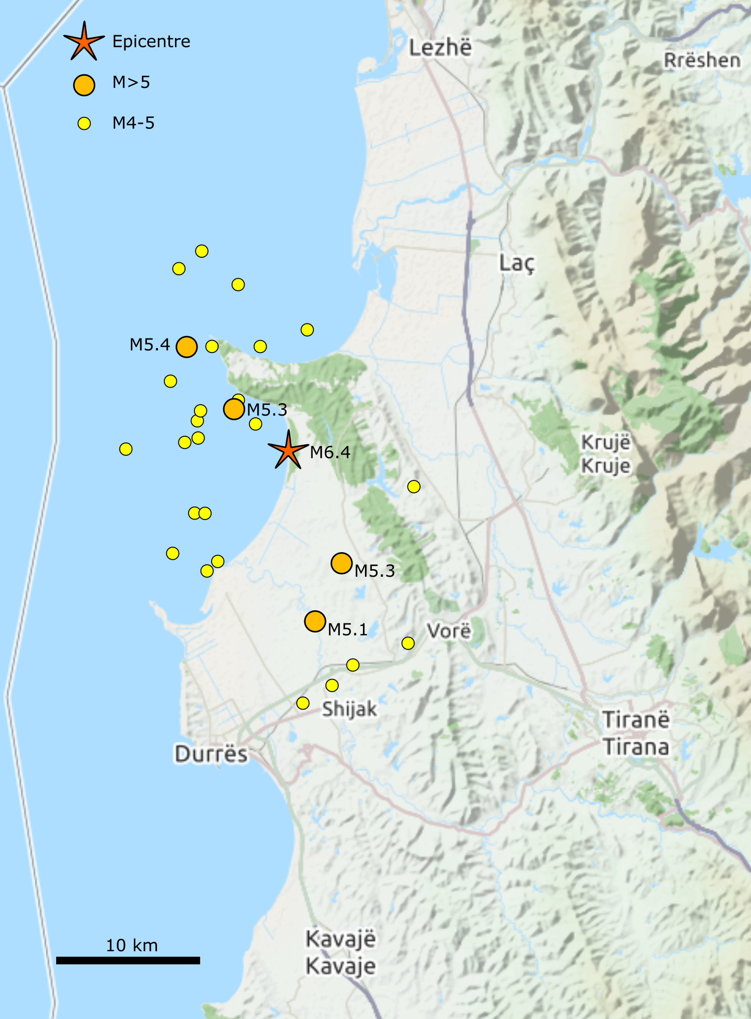 Map showing location of epicentre of 2019 Albania earthquake and aftershocks in the first twenty days, taken from ANSS catalog maps, on a base from Open Street Map, tiles courtesy of Andy Allan